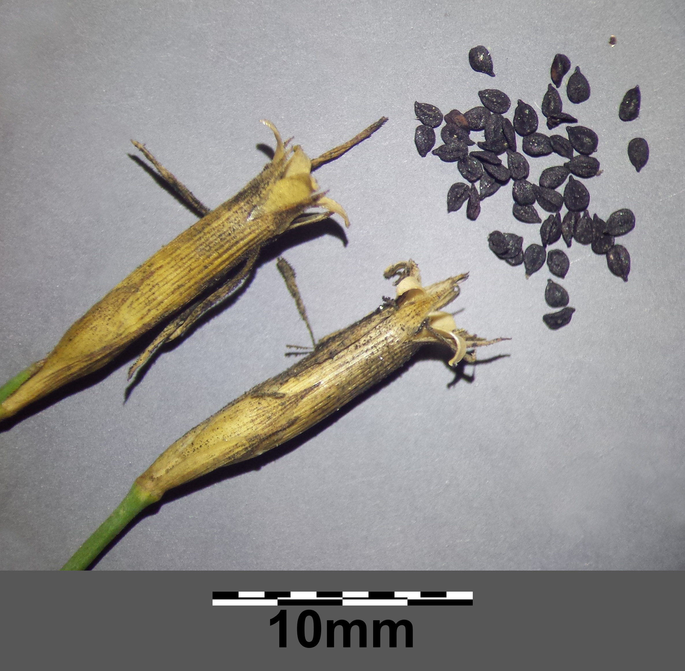 Fruits and seeds Taxonym: Dianthus deltoides ss Fischer et al. EfÖLS 2008 ISBN 978-3-85474-187-9 Location: next to Lembach, district Zwettl, Lower Austria - ca. 750 m a.s.l. Habitat: slope